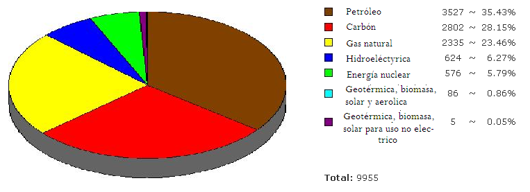 Pie chart made with data from EIA and BP. and Note: These are petroleum equivalents, and not actual energy consumptions, - 1 kWh = 3412.1416 Btu, approximately.